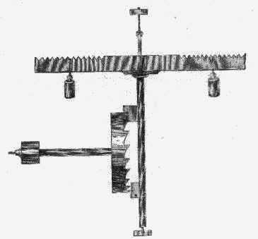 Verge & foliot escapement mechanism from the De Vick clock, built 1379 in Paris by Henri De Vick.